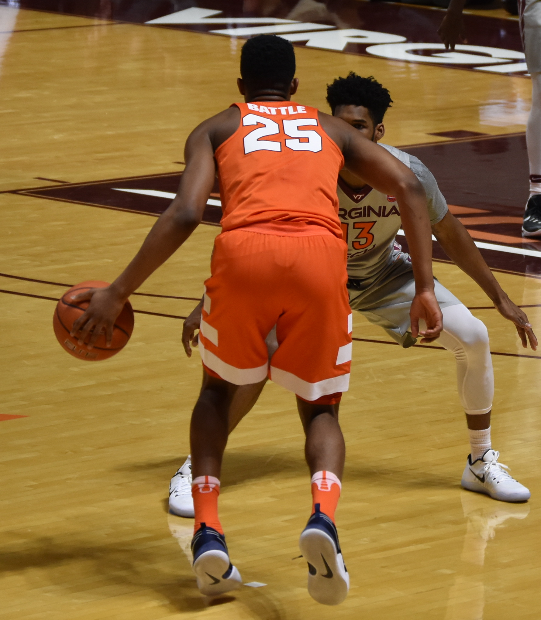 Tyus Battle goes to work against Ahmed Hill